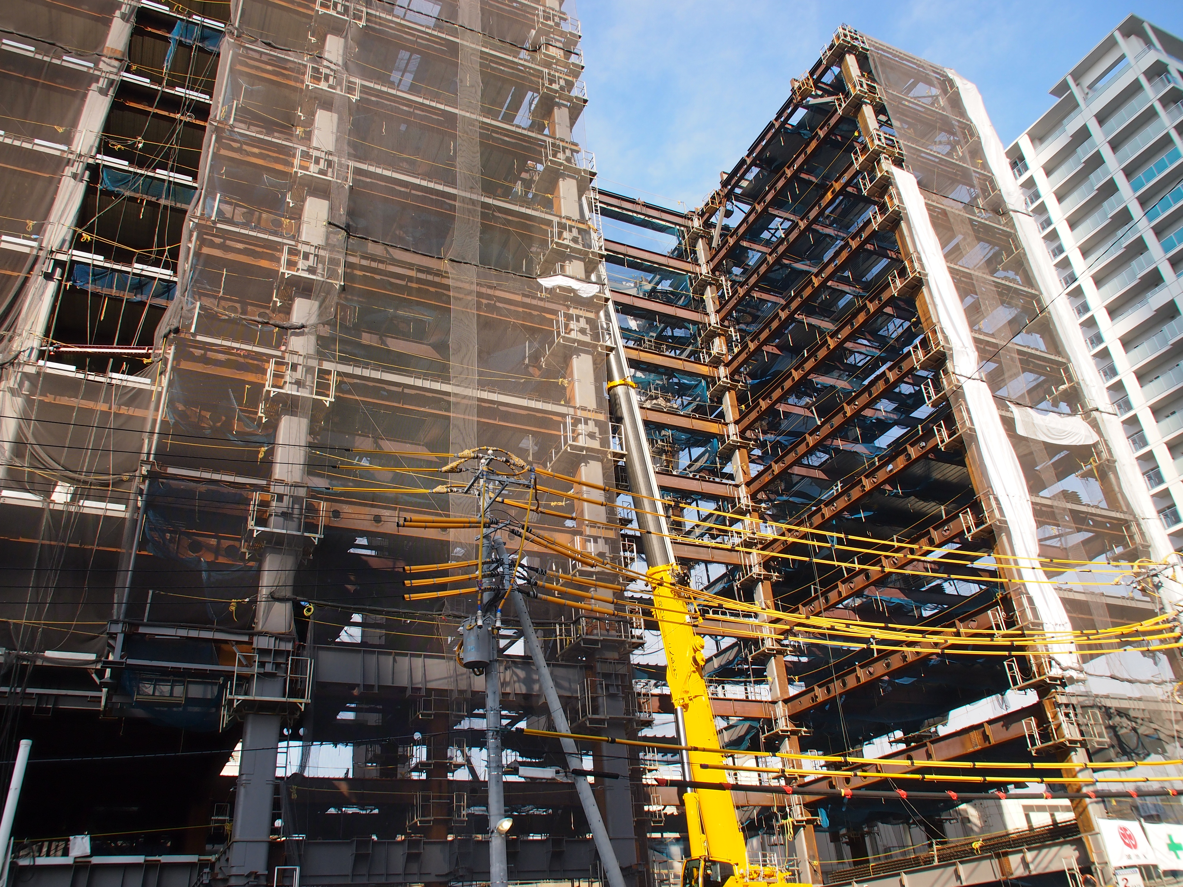 Construction site , Musashi-Kosugi